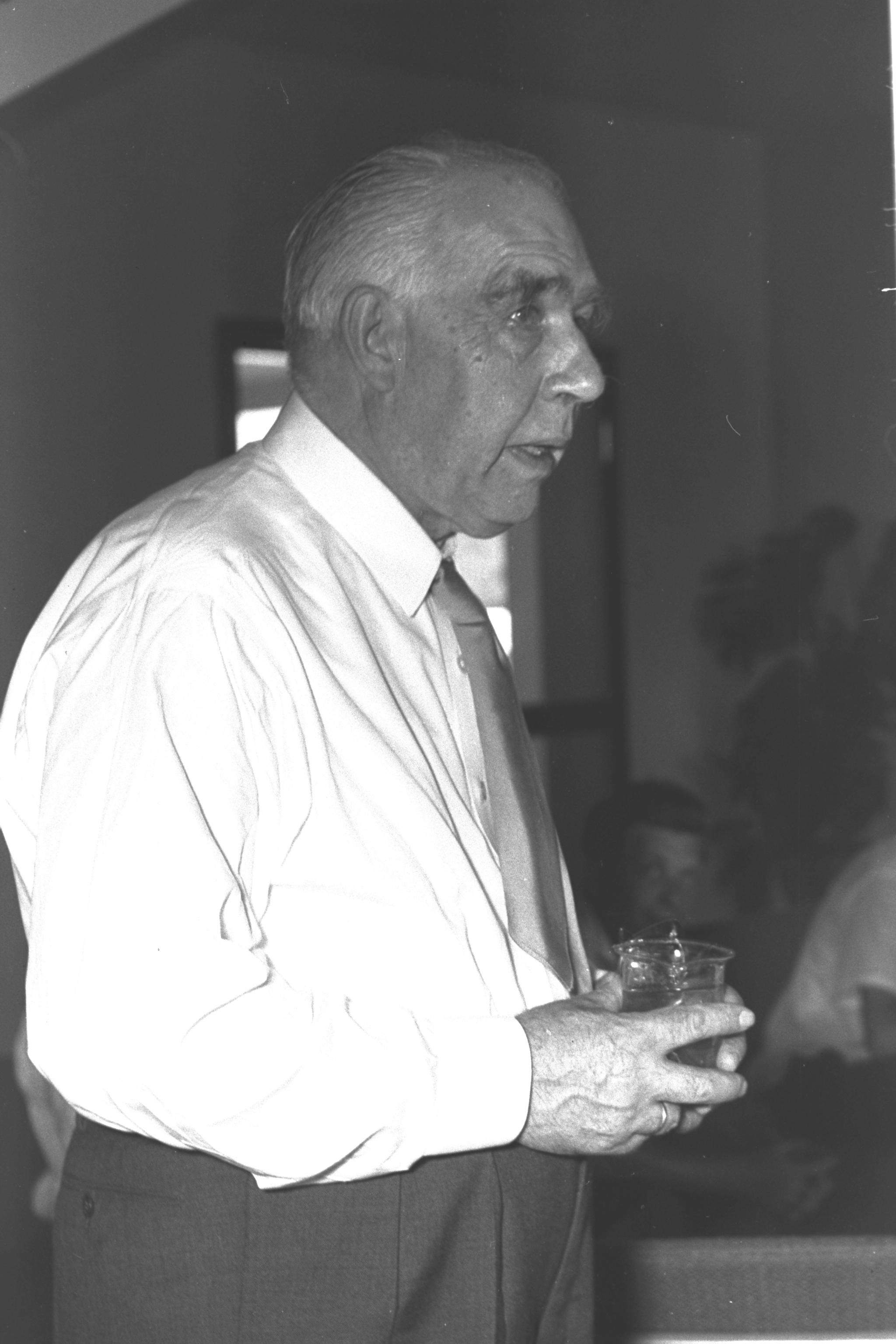 Niels Bohr visiting at Weizmann Institue for the dedication of the nuclear research institute.